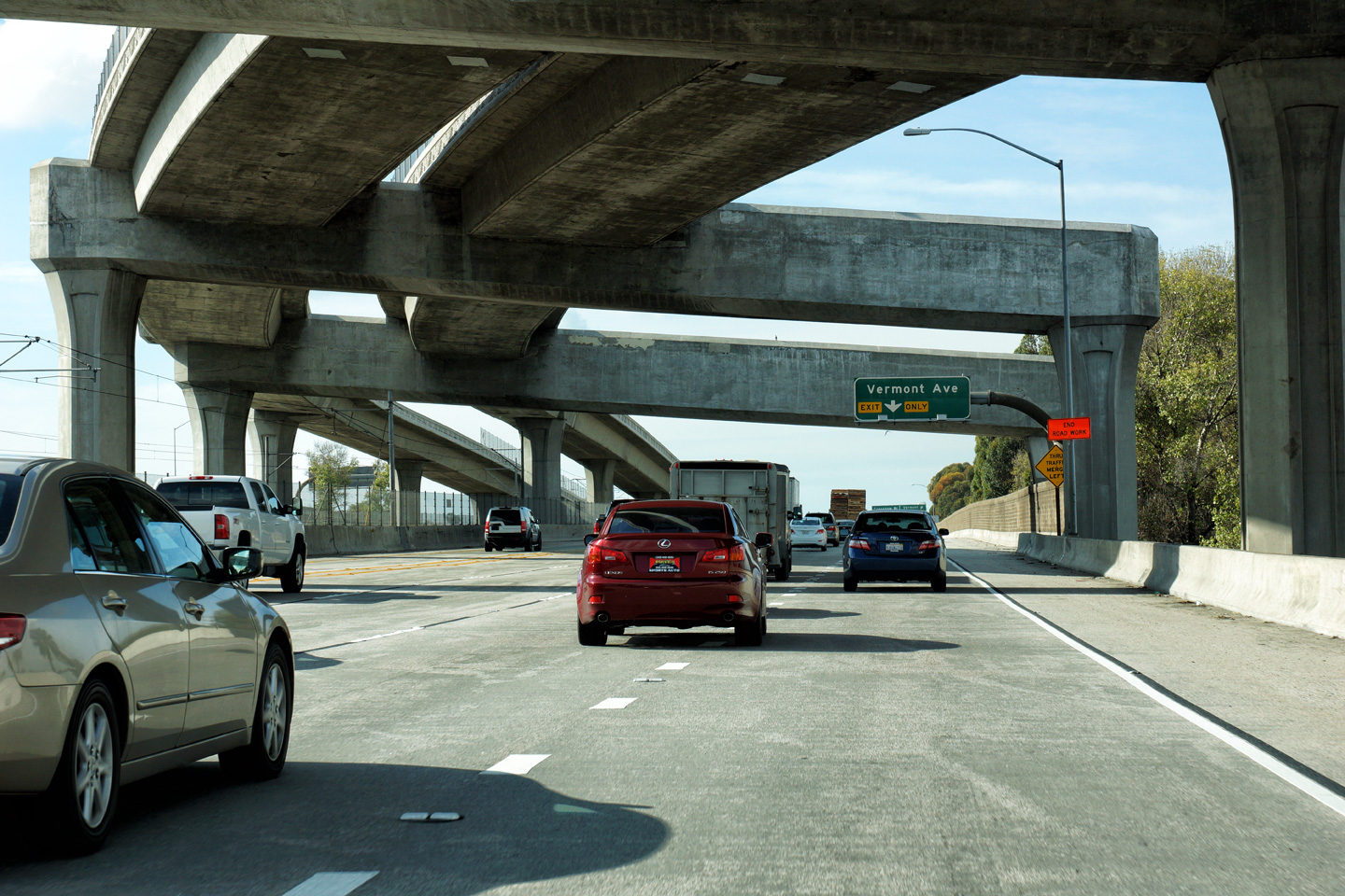 Interstate 105 California, view looking west beneath the flyover ramps that carry the Carpool lanes from the 110 Freeway.